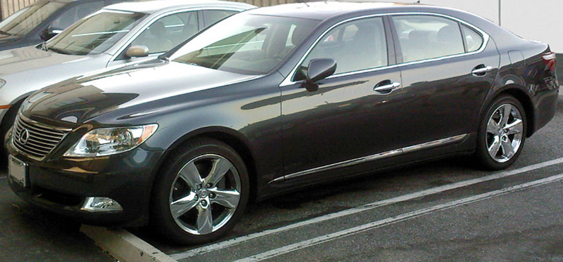 LWB version of the Lexus LS